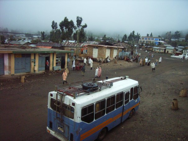 View on the town of Hagere Selam, Tigray. View is to the northwest.